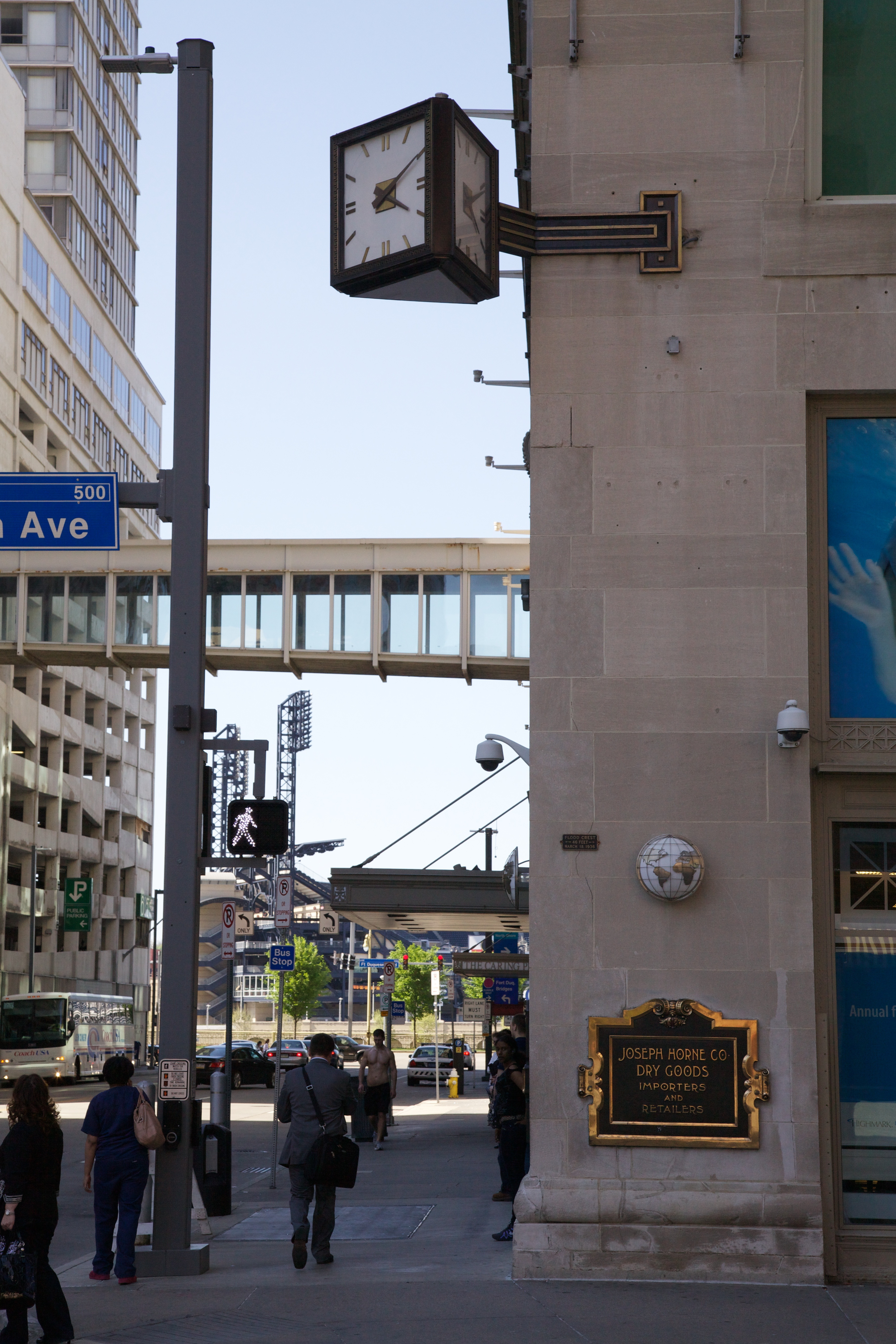 Joseph Horne Co. - Dry Goods Importers and street clock. I really liked the design of the clock!